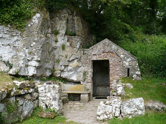 St Seiriol's Well